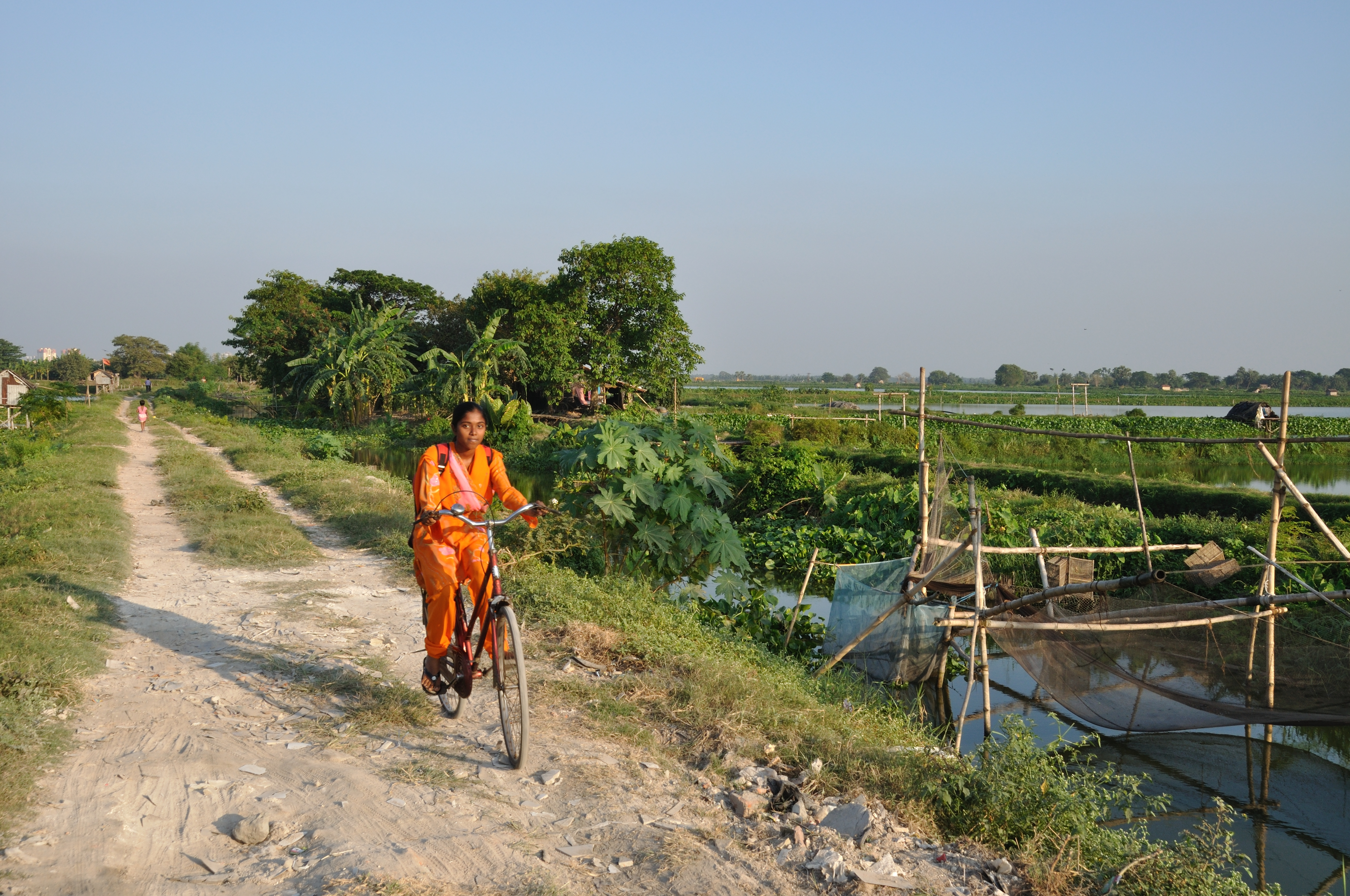 The east side of Bidhan Nagar (Salt Lake) sector V, is pisciculture area (Bherie). The photograph has been taken from one km away towards east fron the SDF building in the Bidhannagar (Vidhan Sabha constituency).